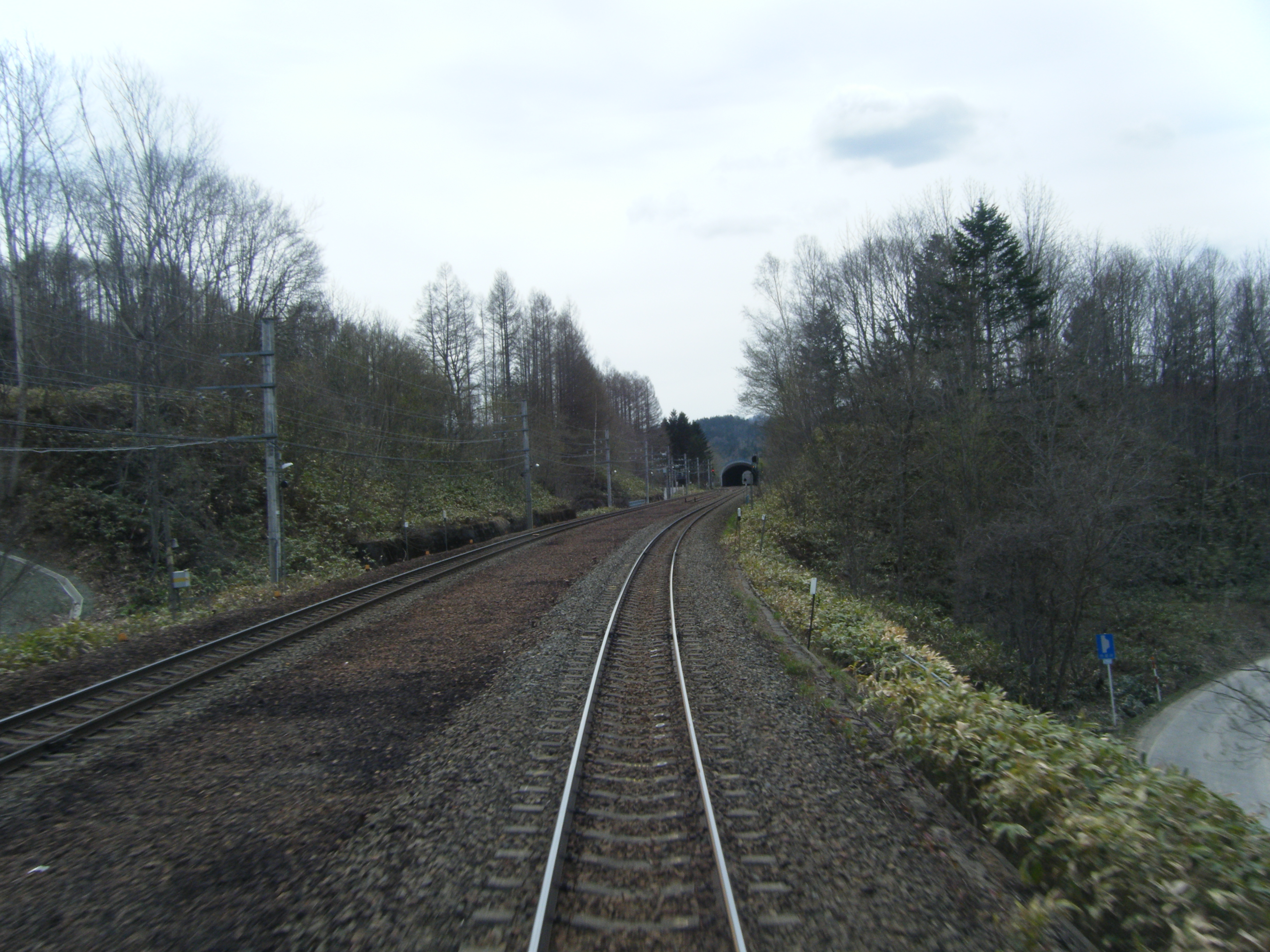 Higashi-Osawa Signal Base viewed from Super Ozora train